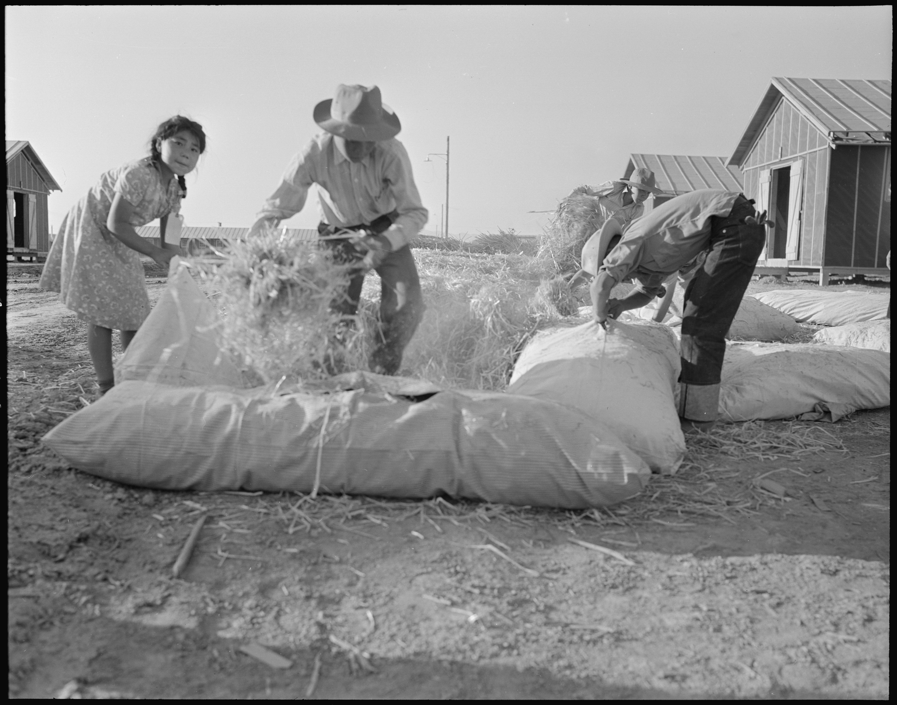 Scope and content: The full caption for this photograph reads: Poston, Arizona. Filling straw ticks for mattresses at Colorado River Relocation center for evacuees of Japanese ancestry.